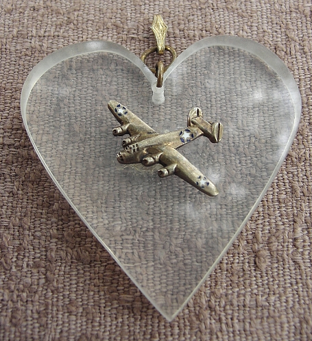 World War II era Lucite sweetheart pin with a B-24 bomber.